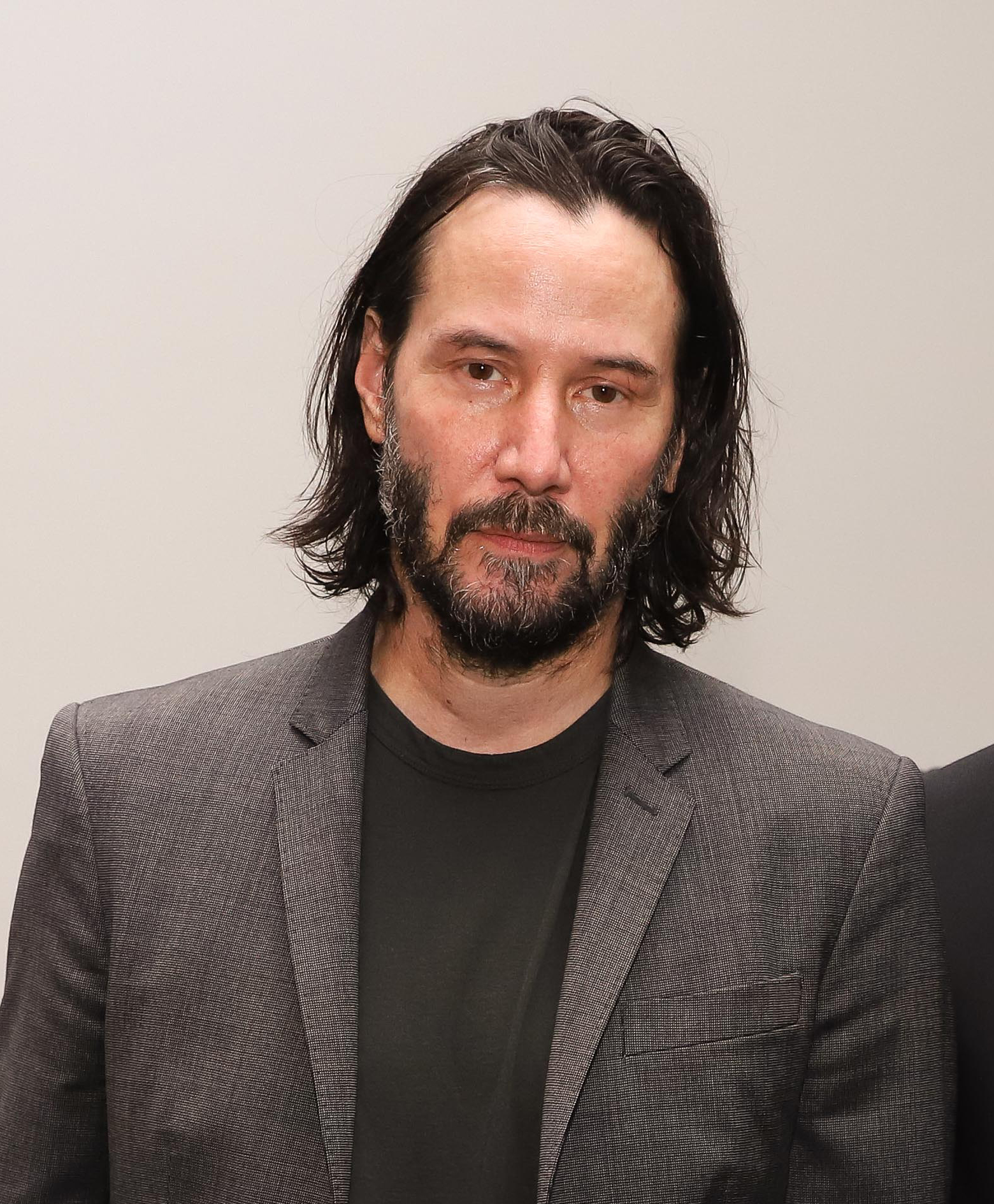 Keanu Reeves in 2019